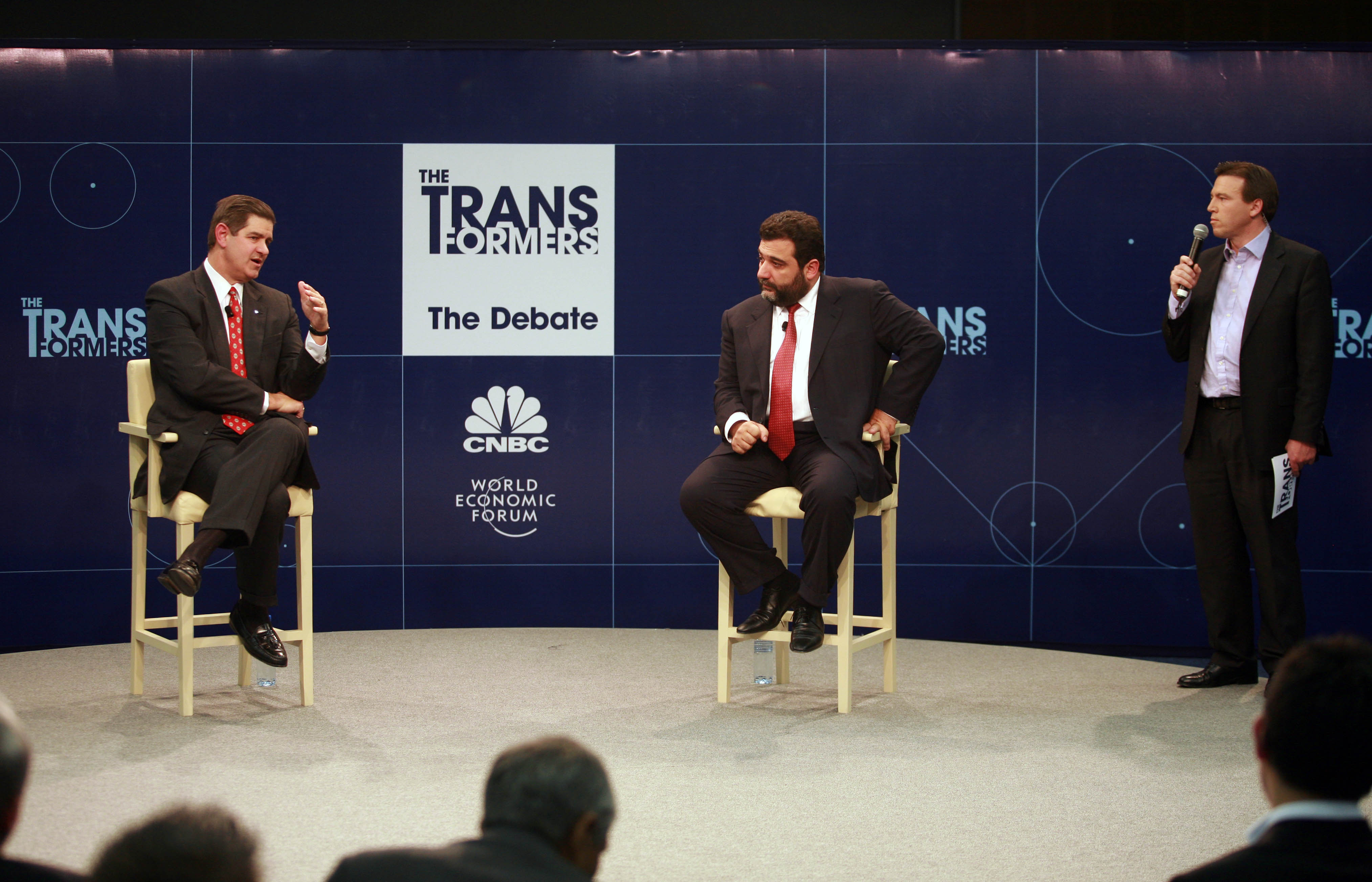 TIANJIN/CHINA, 26SEPT08 - James S. Turley (left), Chairman and Chief Executive Officer, Ernst & Young, Ruben K. Vardanian (center), Chairman of the Board and Chief Executive Officer, Troika Dialog Group, and moderator Geoff Cutmore, CNBC Anchor, participate in the Transformers Debate at the World Economic Forum Annual Meeting of the New Champions in Tianjin, China 26 September 2008. Copyright World Economic Forum ( by Adam Nadel